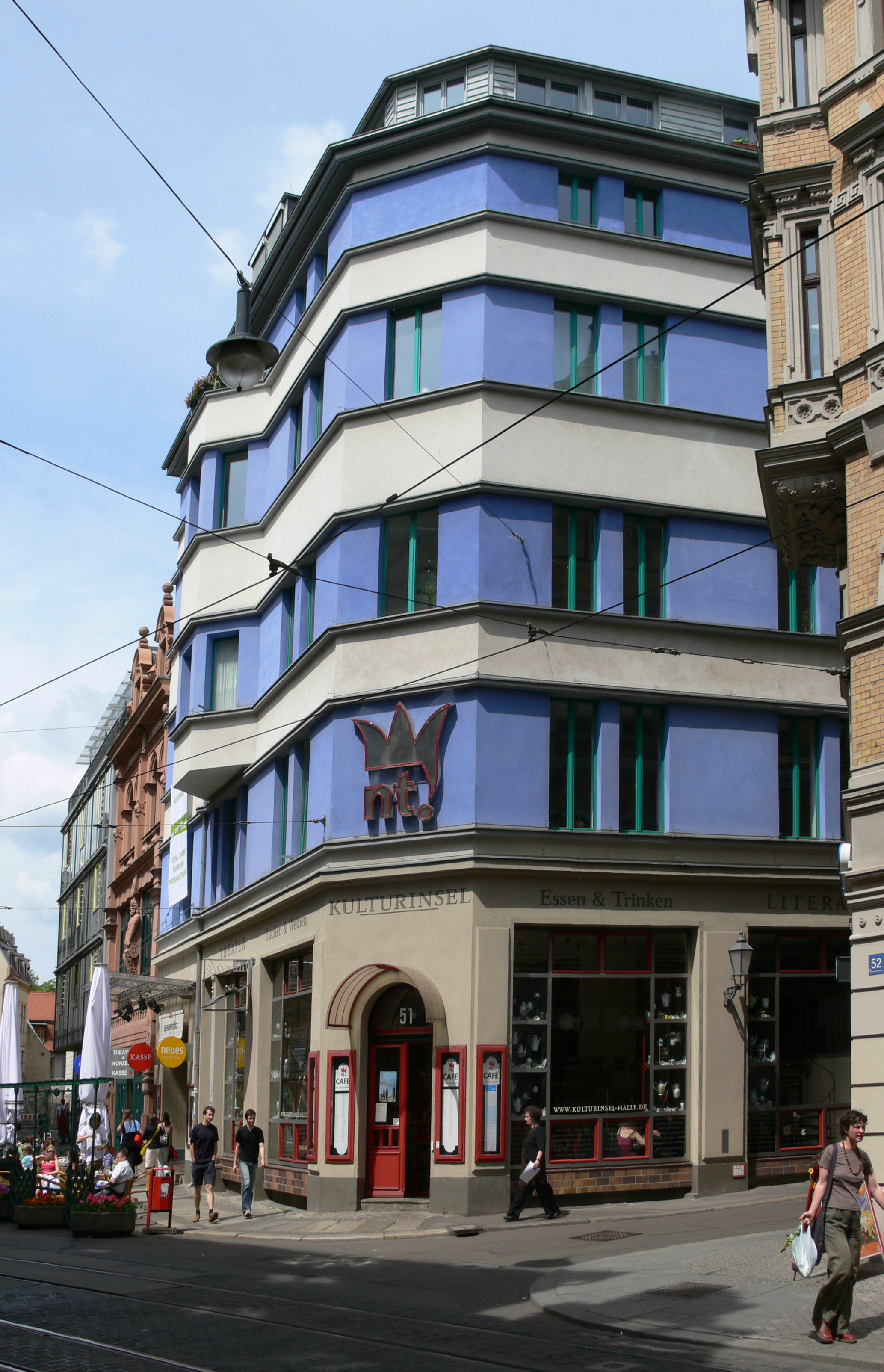 Neues Theater in Halle, Germany